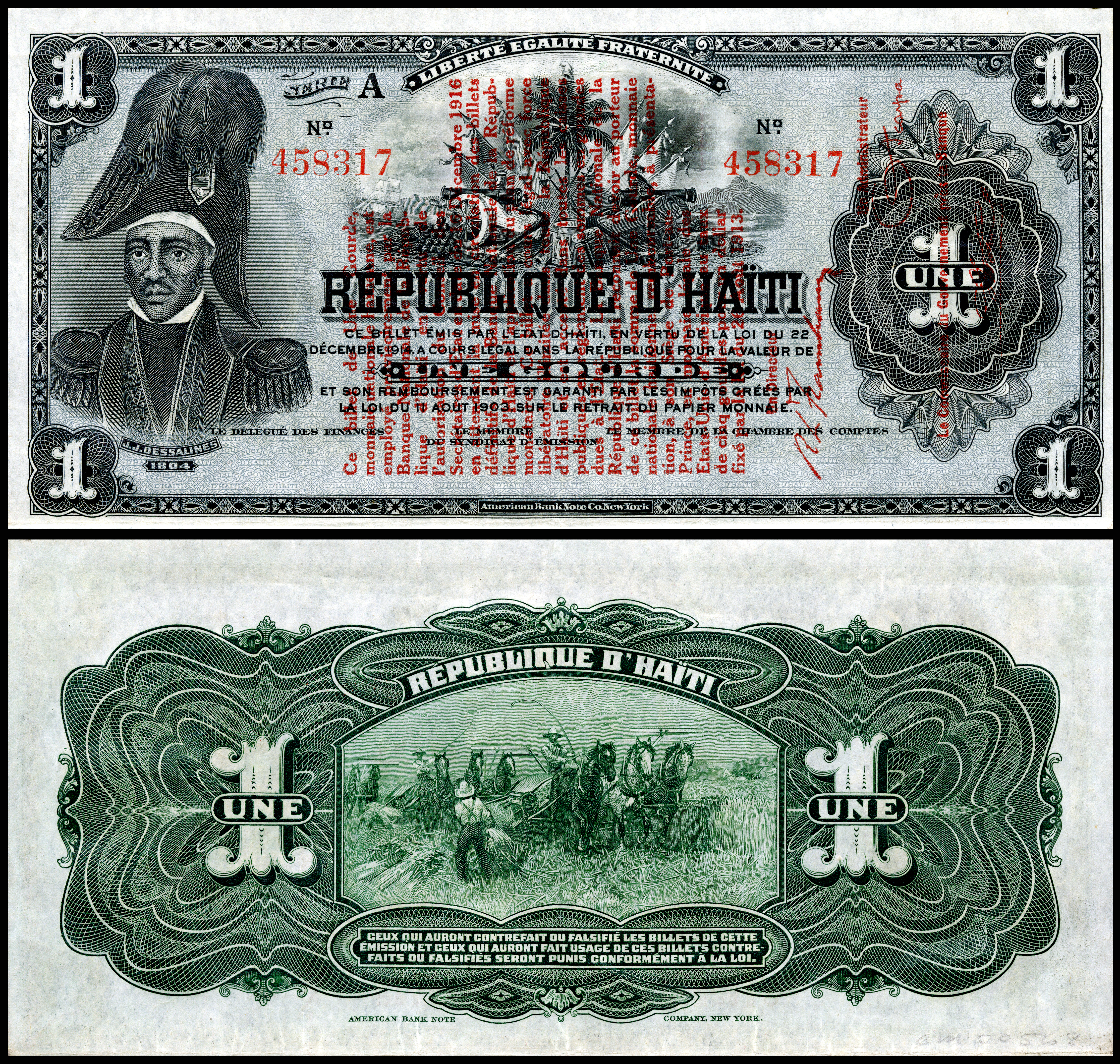 Haiti, Banque Nationale De la Republique, 1 gourde (1916). Engraved by the American Bank Note Company. Depicting Jean-Jacques Dessalines.